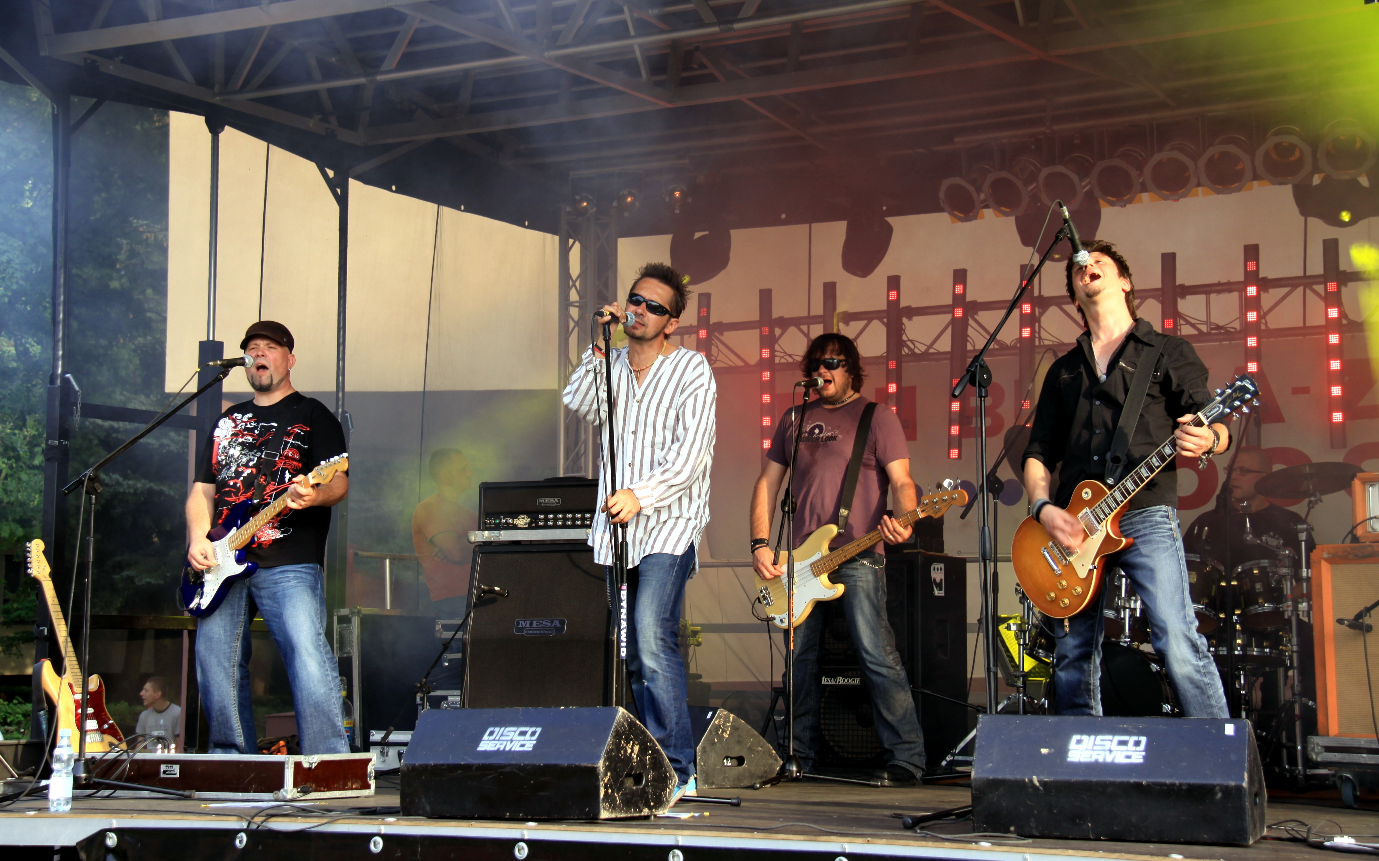 Golden Life, polish rock bands during the concert in Busko-Zdrój.